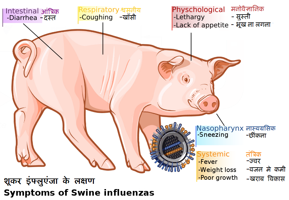 Swine flu symptoms on swines. Hindi.